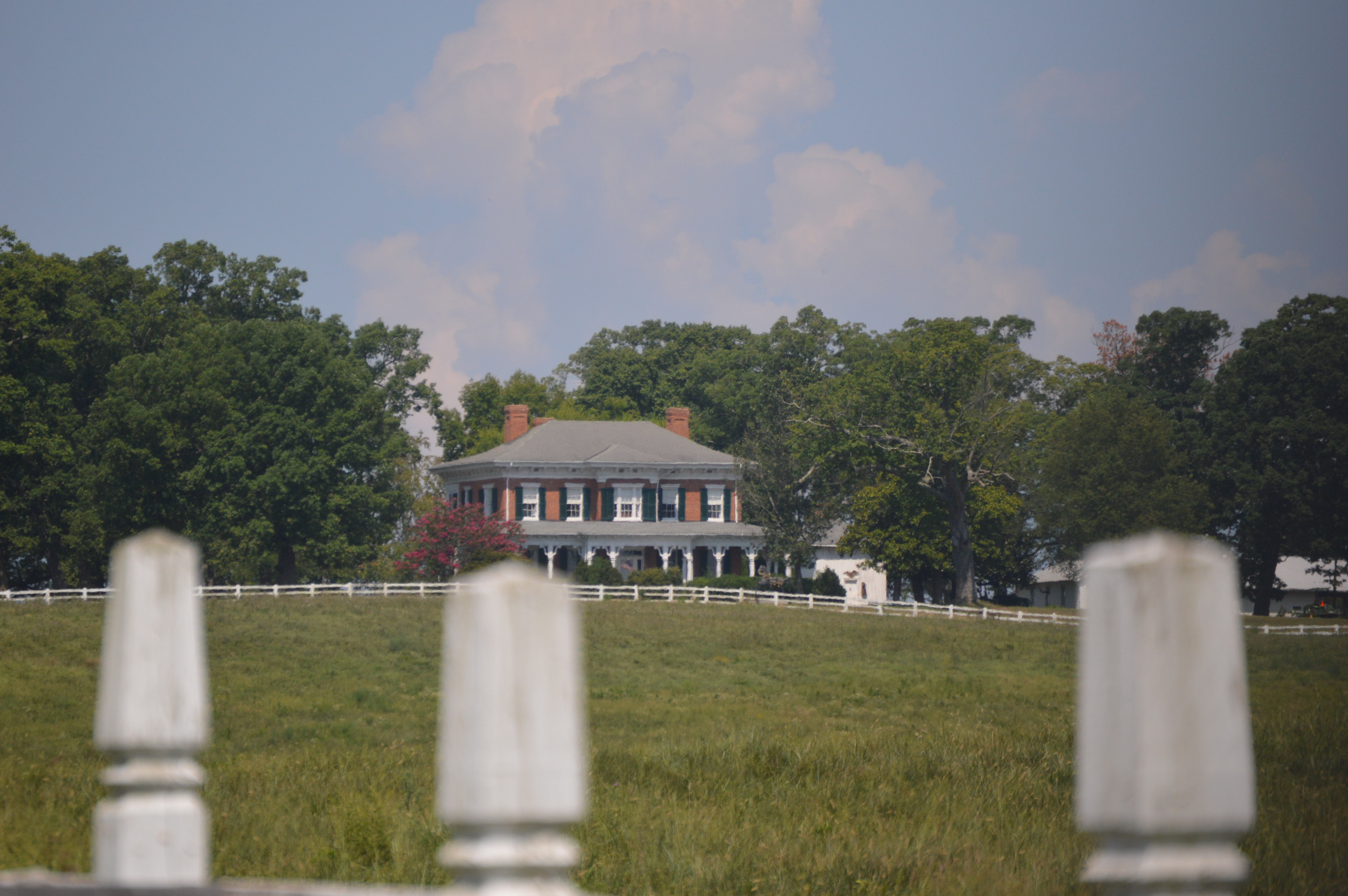 Distant view from the east of Grassdale (the white spots are the tops of fenceposts, unavoidable due to the location and the heavy traffic), located off U.S. Route 15 south of Gordonsville in Louisa County, Virginia, United States. Built in 1861, it is listed on the National Register of Historic Places.